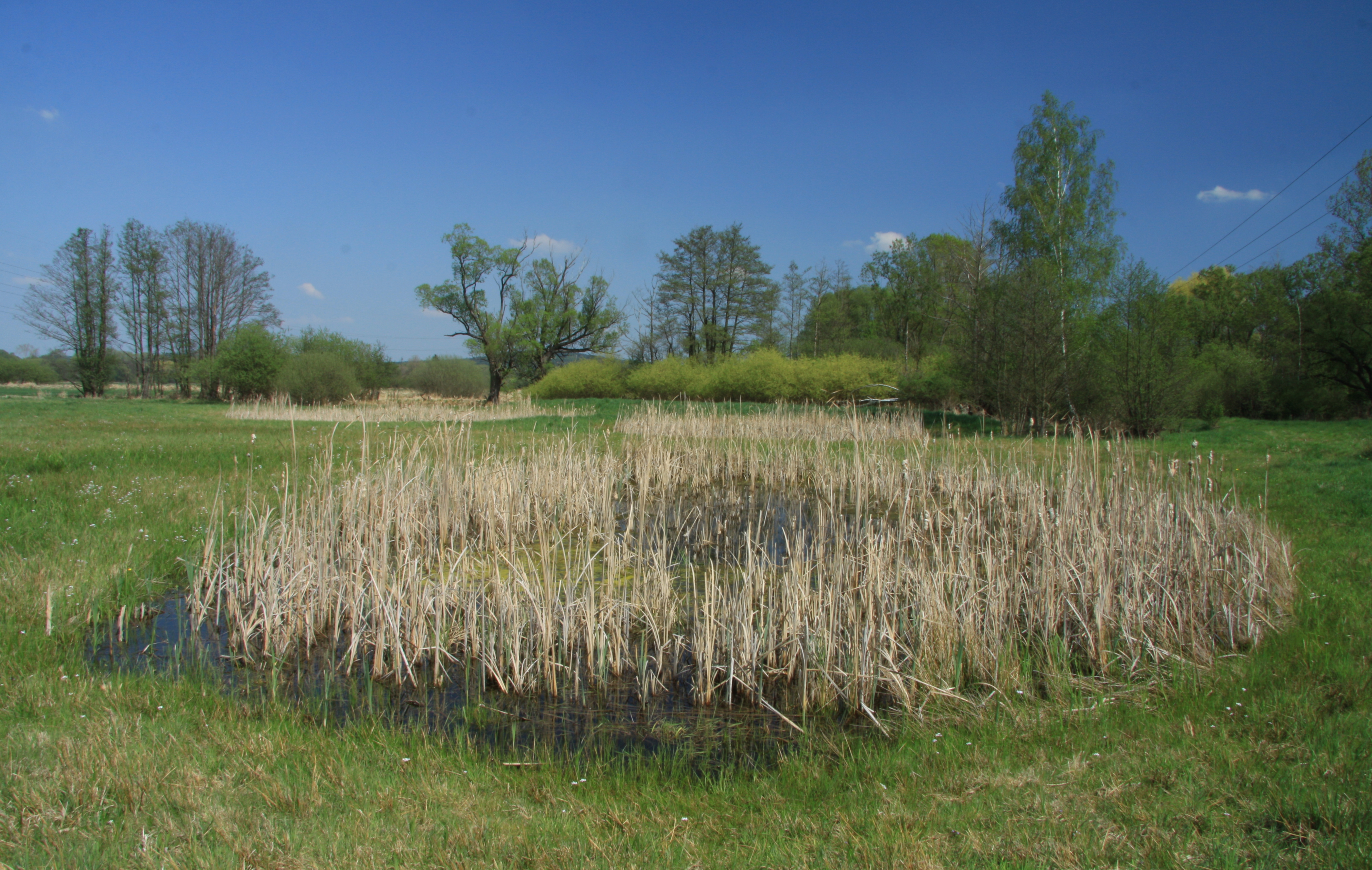 Natural monument Tůně u Hájské in Strakonice District, Czech Republic Project: Chráněná území.